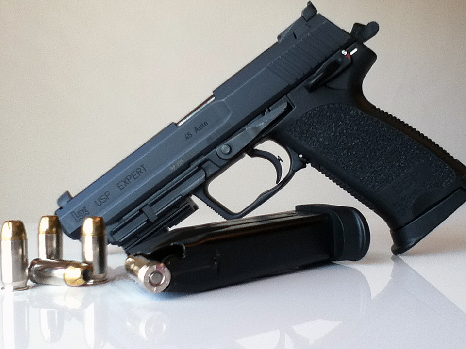 Heckler & Koch USP Expert .45